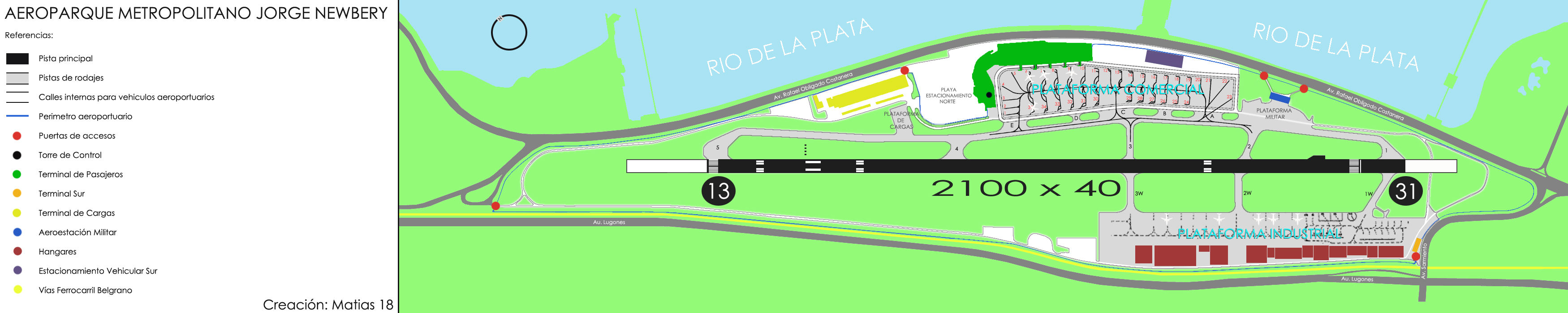 A Spanish map of Aeroparque Jorge Newbery in Buenos Aires, Argentina